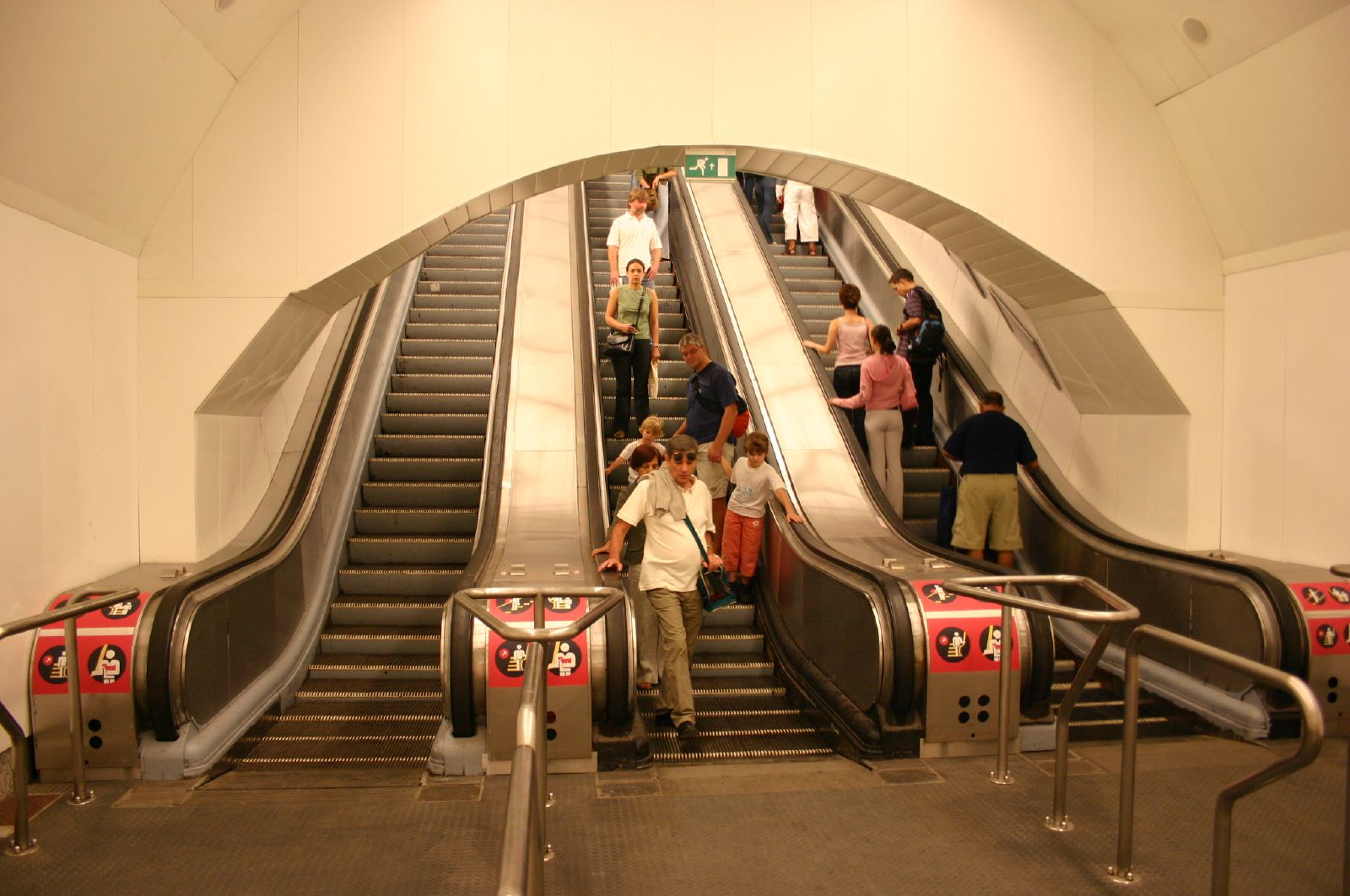 An escalator at a Metro station in Budapest, Hungary